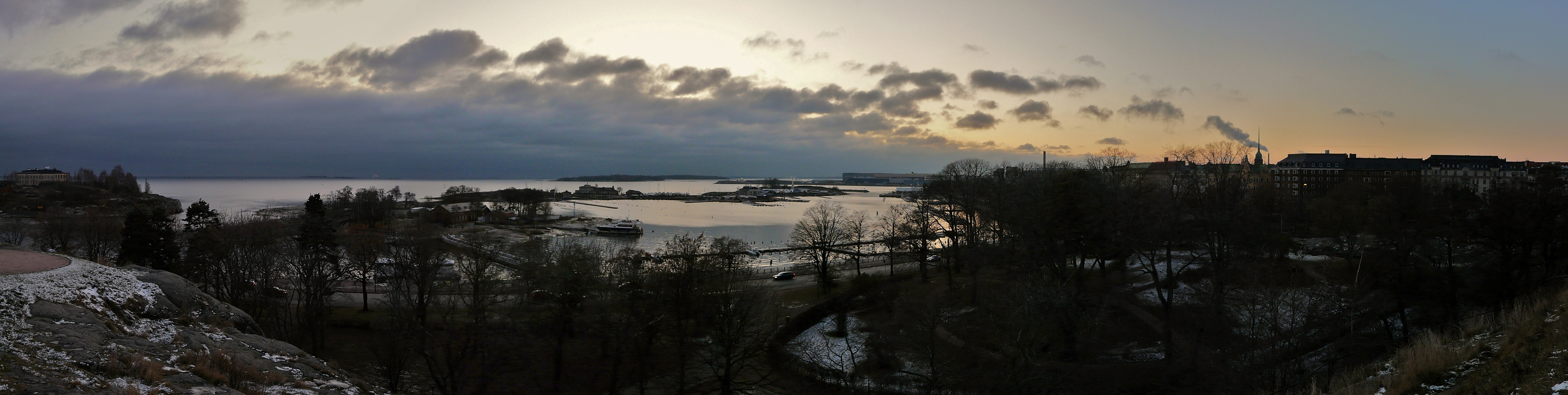 A view to the south and west from the rock in Kaivopuisto in 2009 November.